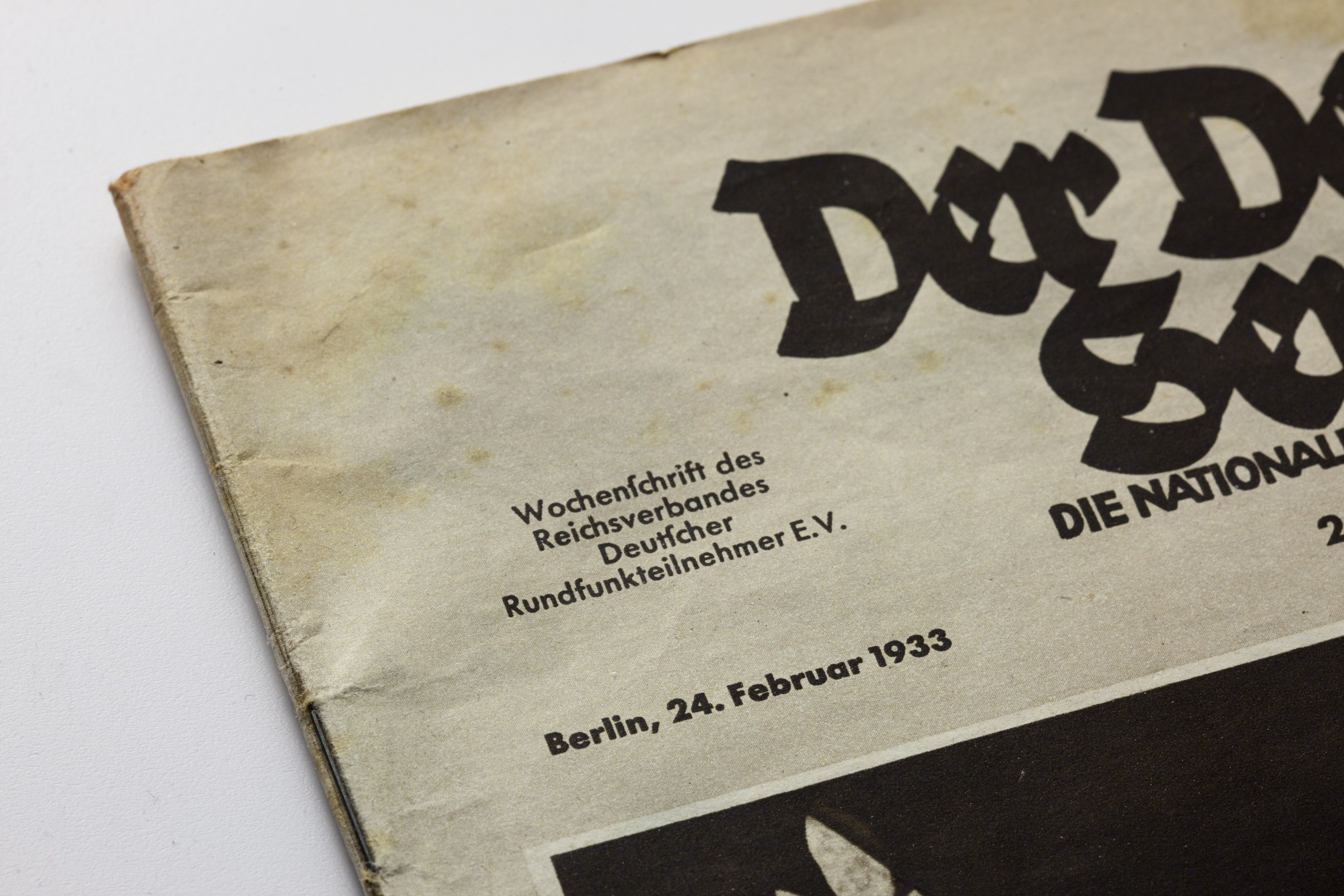 Photograph of the top section of the cover page of "Der Deutsche Sender", a German radio publication run partly be the Nazi Party